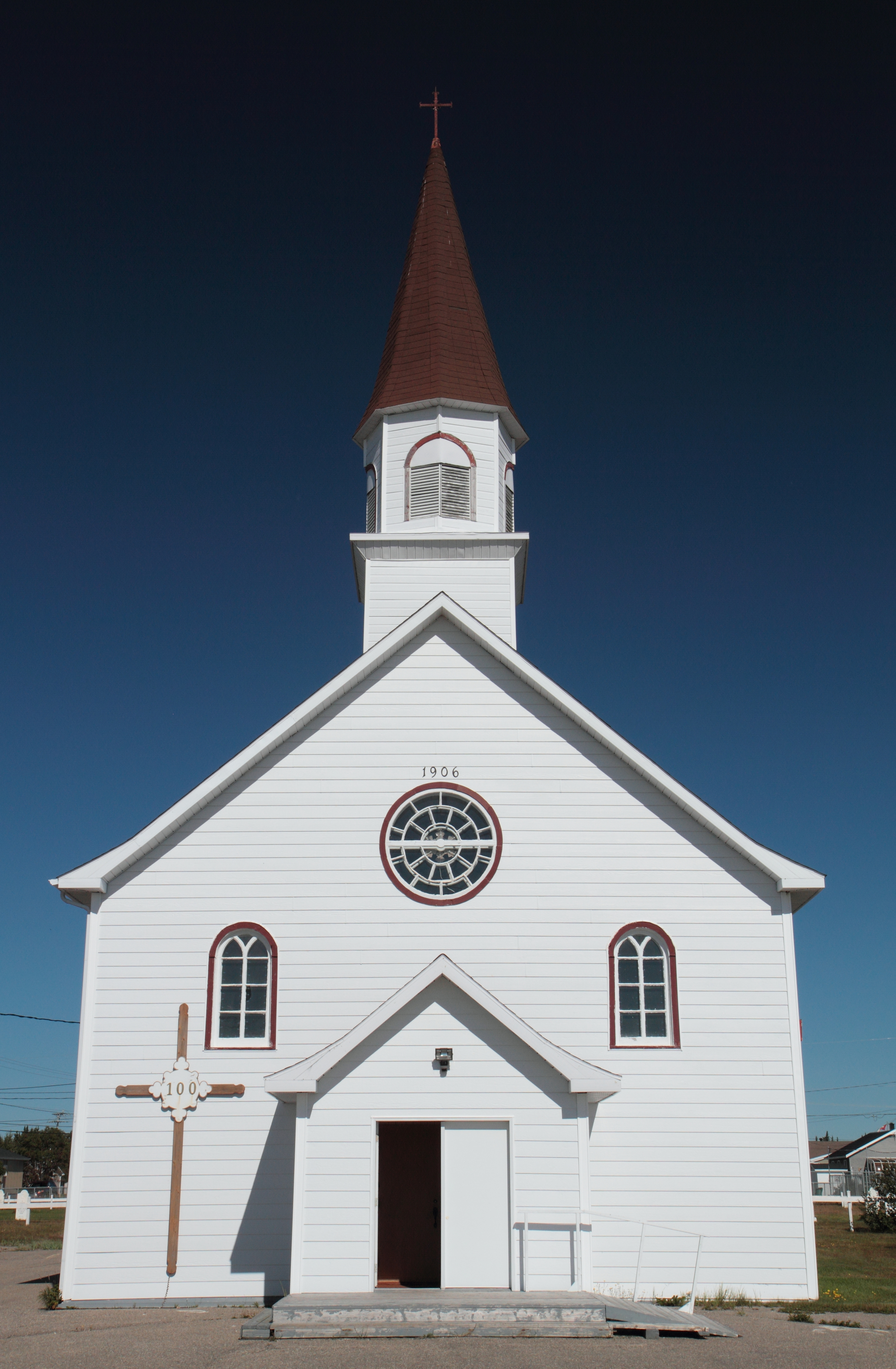 Church of Longue-Pointe-de-Mingan, Quebec, Canada